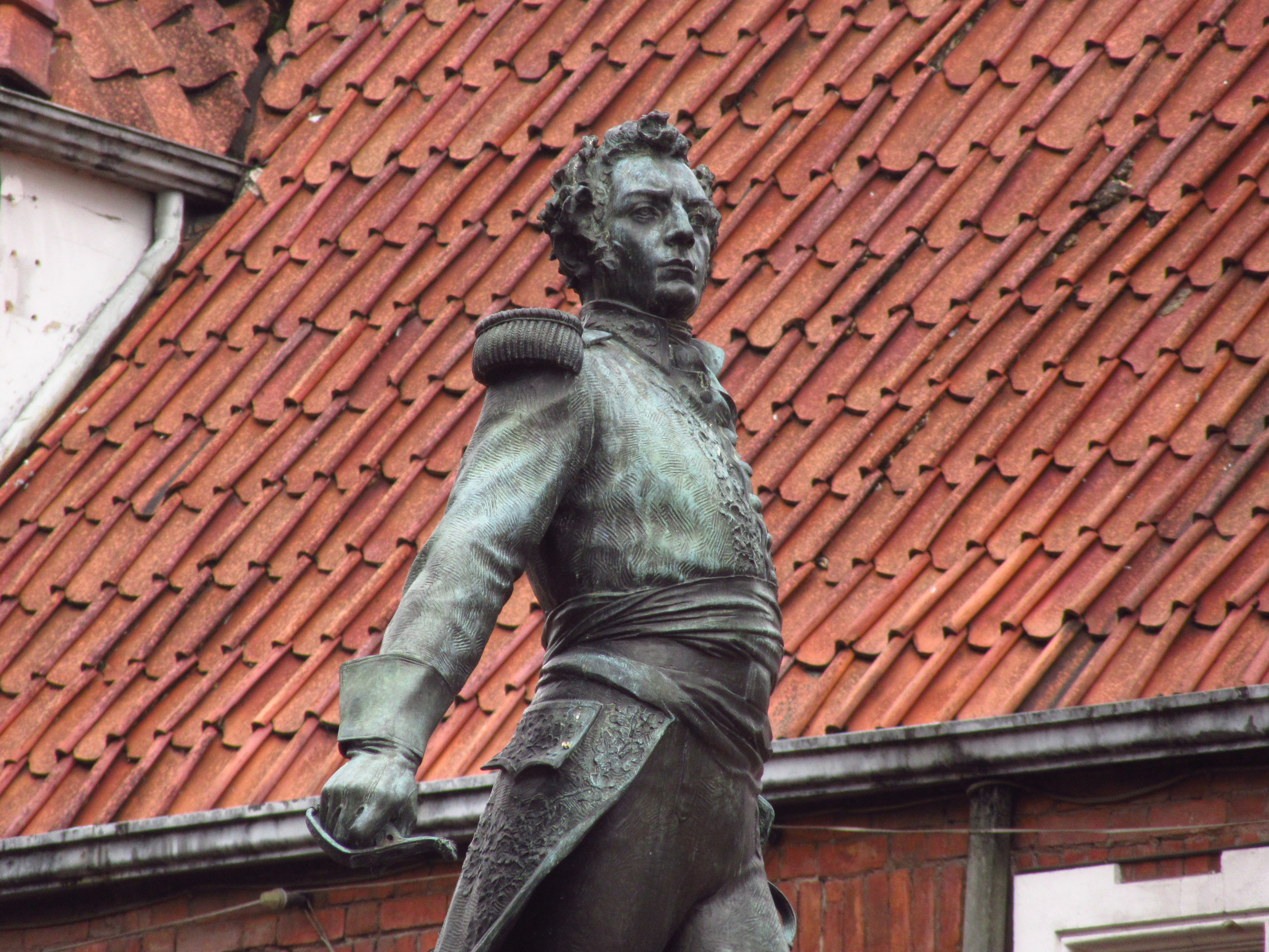 Bogotá